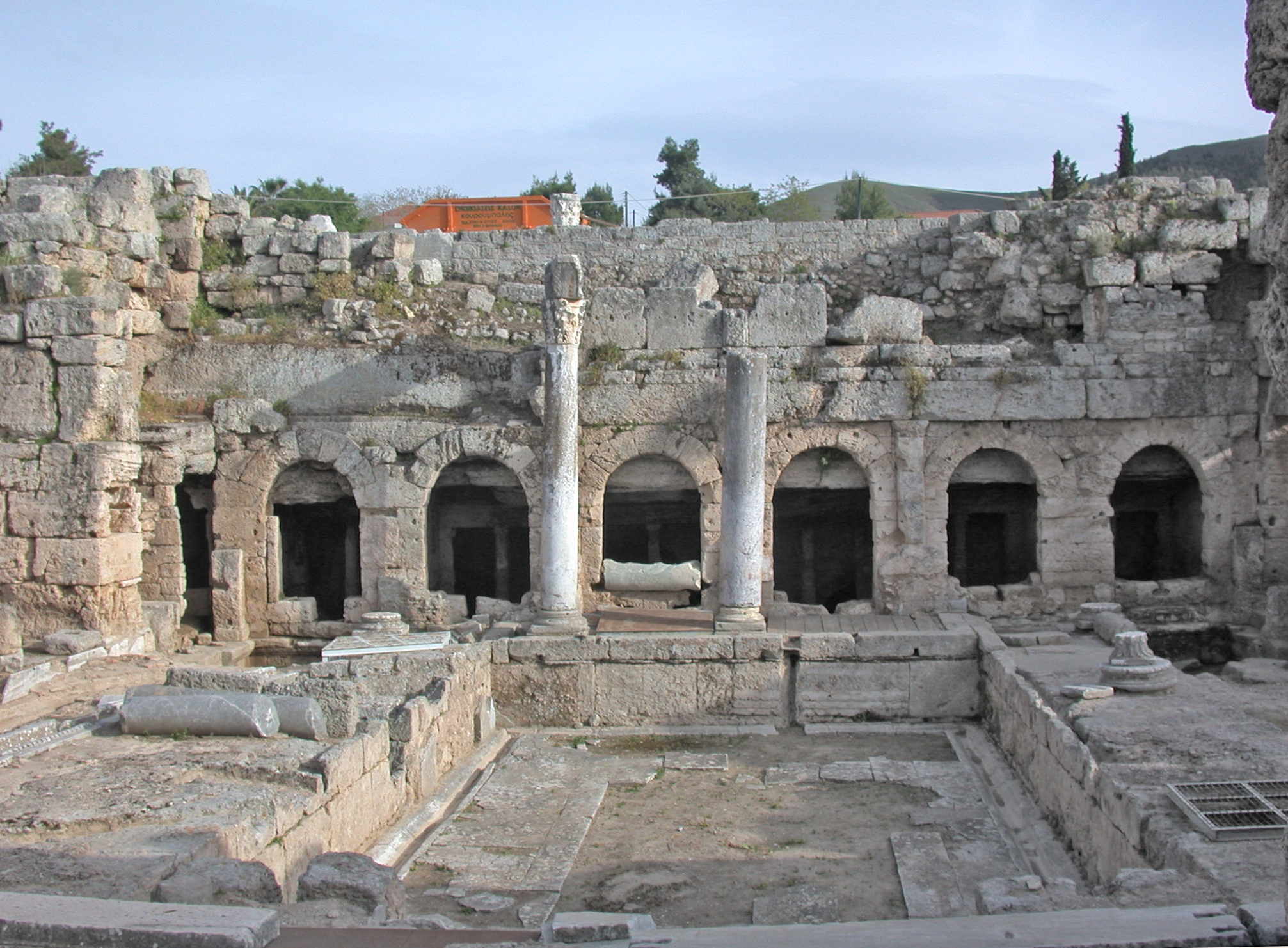 Ancient Corinth, roman fountain